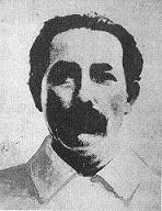 Mikhail Markovich Borodin (July 9, 1884 – May 29, 1951) was the alias of Mikhail Gruzenberg, a Comintern agent to the Kuomintang government in Canton, China. He was a prominent advisor to Dr. Sun Yat Sen at that time.